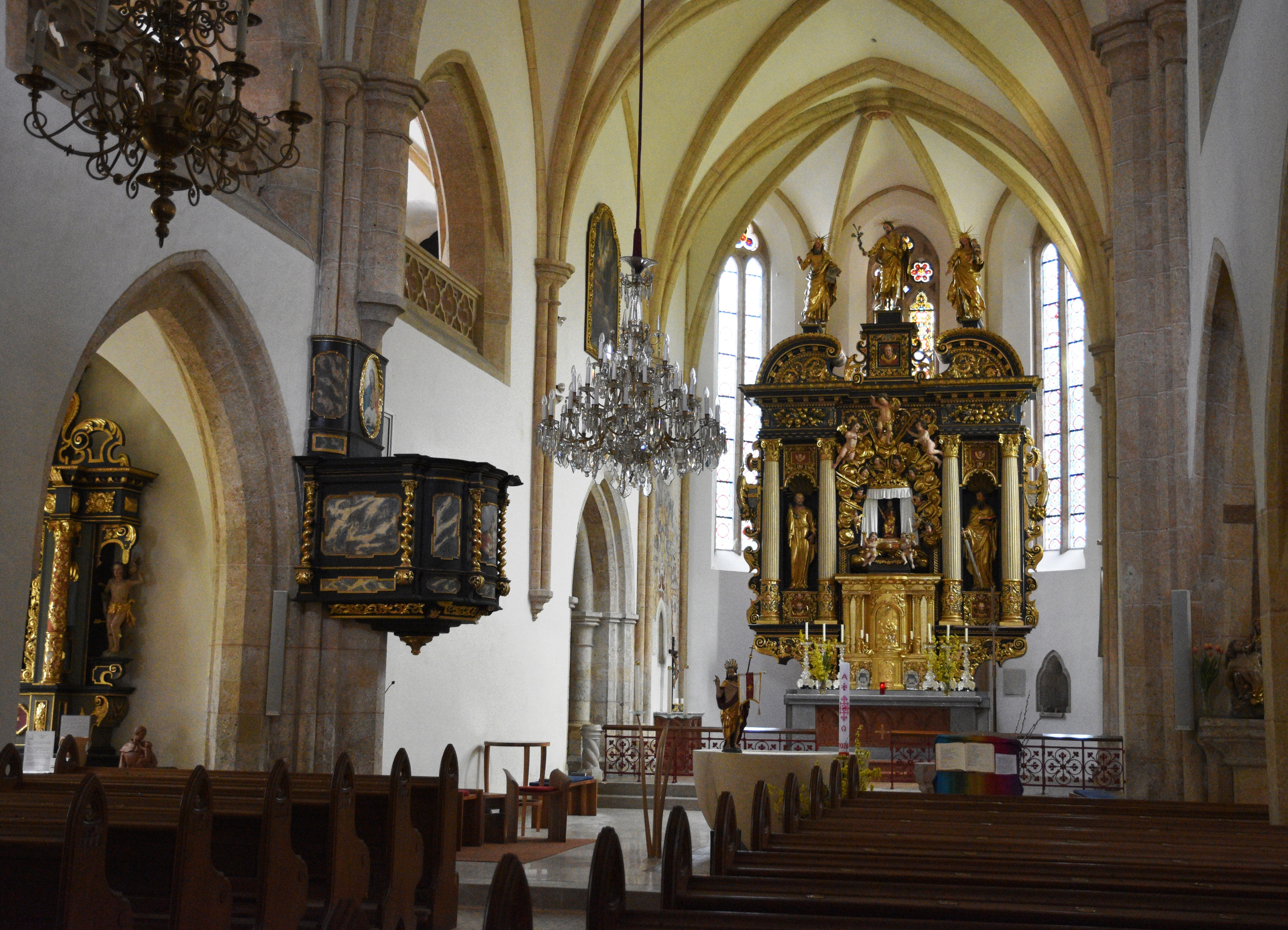 Church Pfarrkirche Spital am Semmering Interior